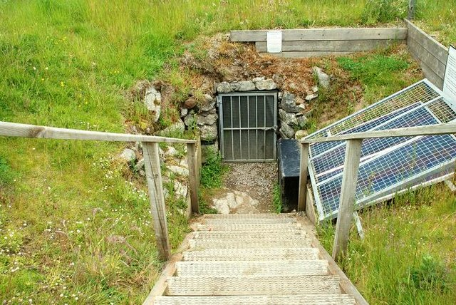 Finnis souterrain (“Binder’s Cove”) is thought to date from the 9th century and might have been used for storage or as a hiding place. The main passage runs for some 95 ft and there are two shorter side passages running to the NE.